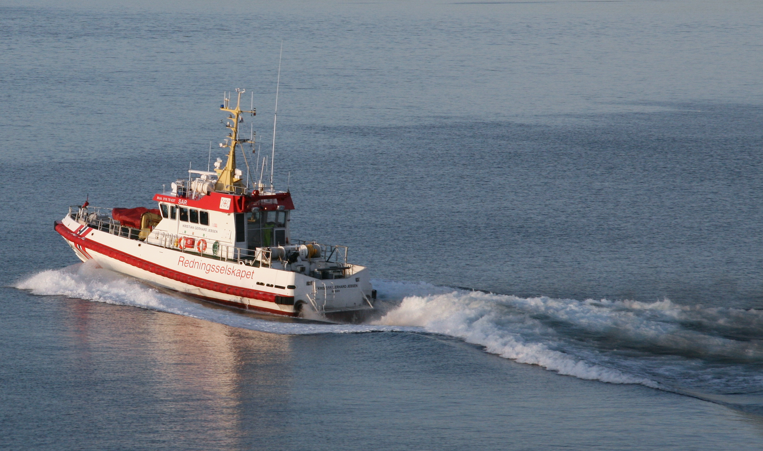 Norwegian Search and Rescue-vessel 'Kristian Gerhard Jebsen', sailing out from Bergen, western Norway. Picture taken from Nordnes, Bergen, Norway.